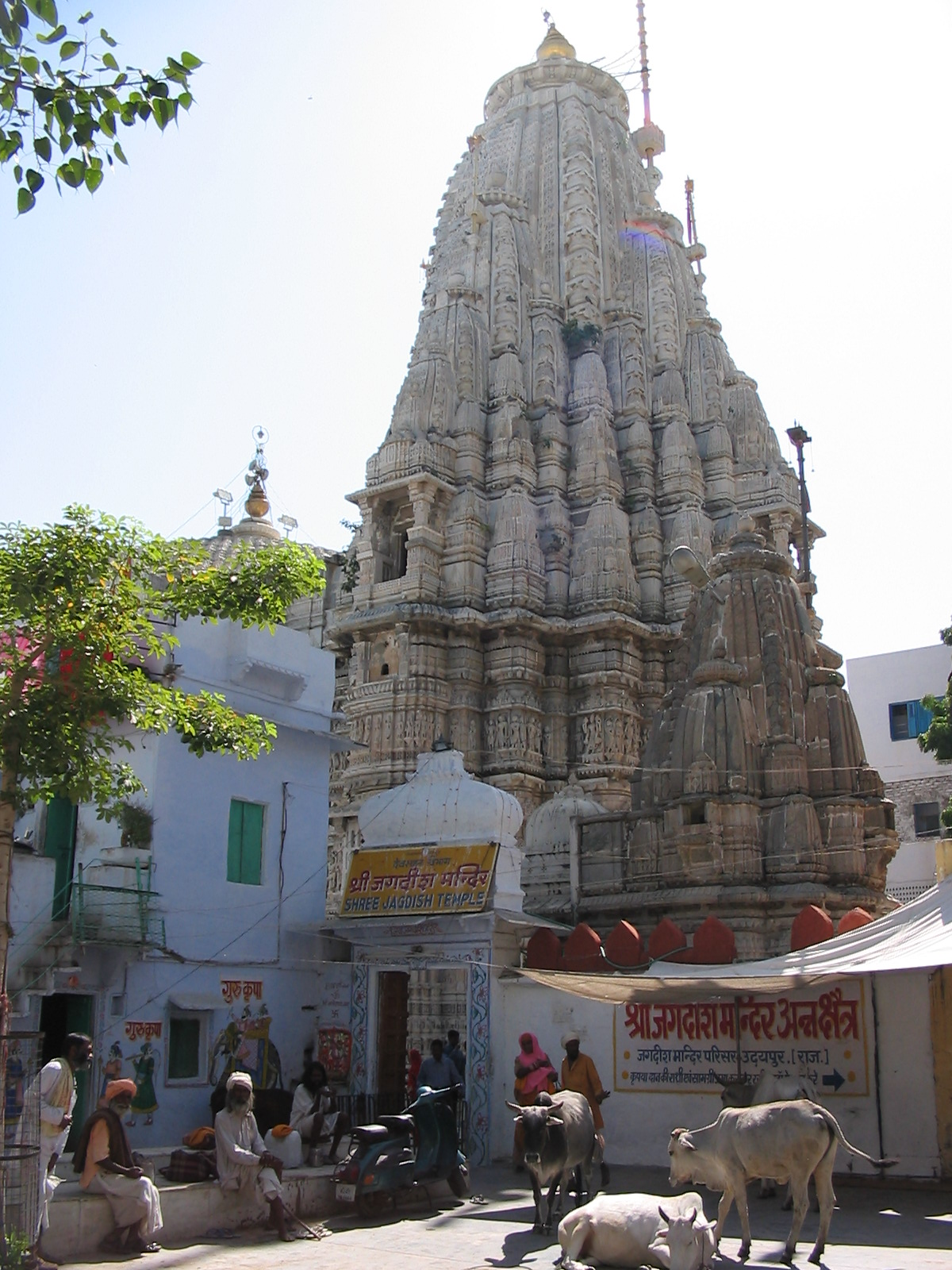 Shree Jagdish Tempel in Udaipur